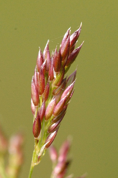 Agrostis capillaris from Commanster, Belgian High Ardennes .